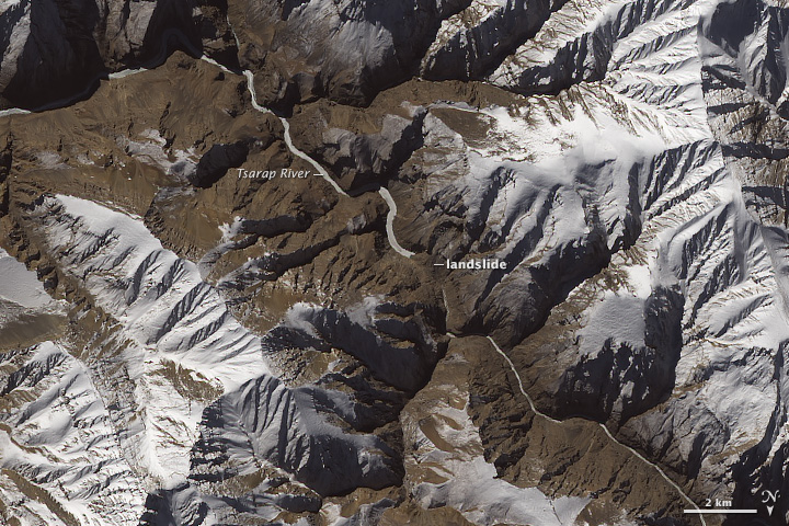 Image of Tsarap River landslide and lake from Operational Land Imager (OLI) on Landsat 8